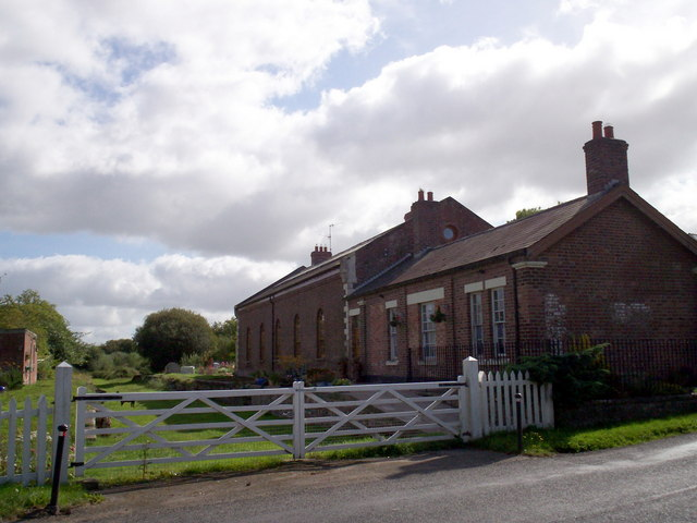 Refurbished Richhill Railway Station, Sandymount Road. This disused railway line was the main line between Portadown and Armagh.